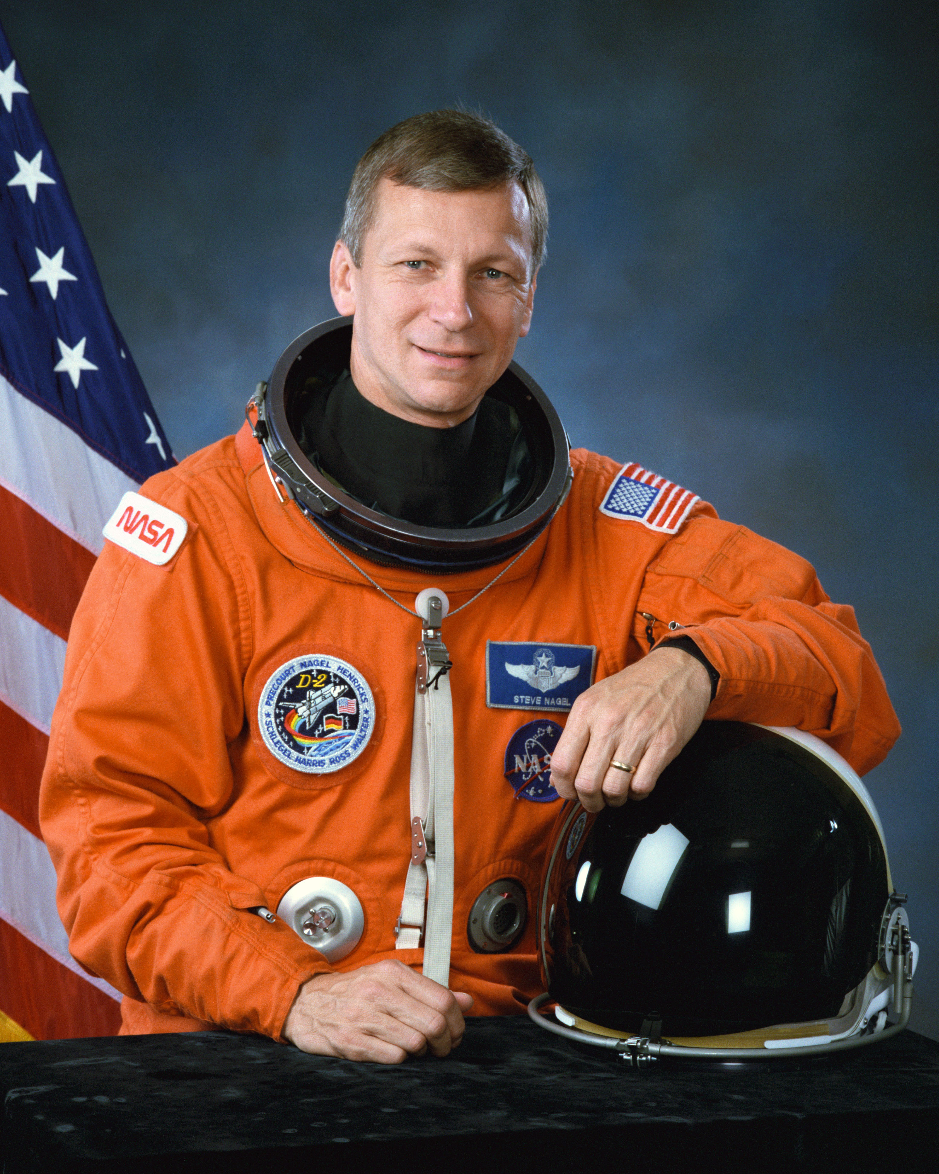 Astronaut Steven R. Nagel from [1]